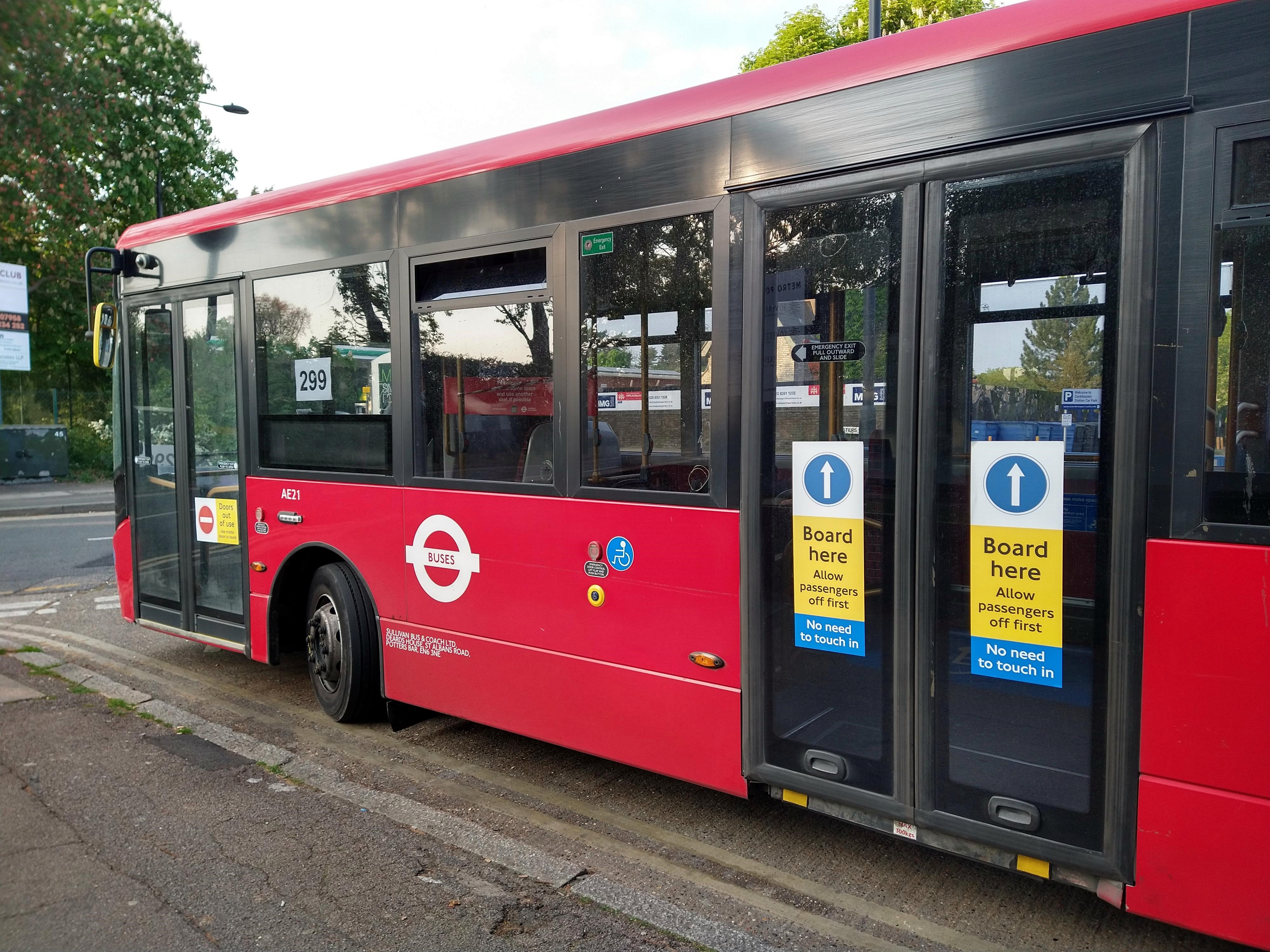 Central boarding on London buses during the 2020 Covid-19 pandemic